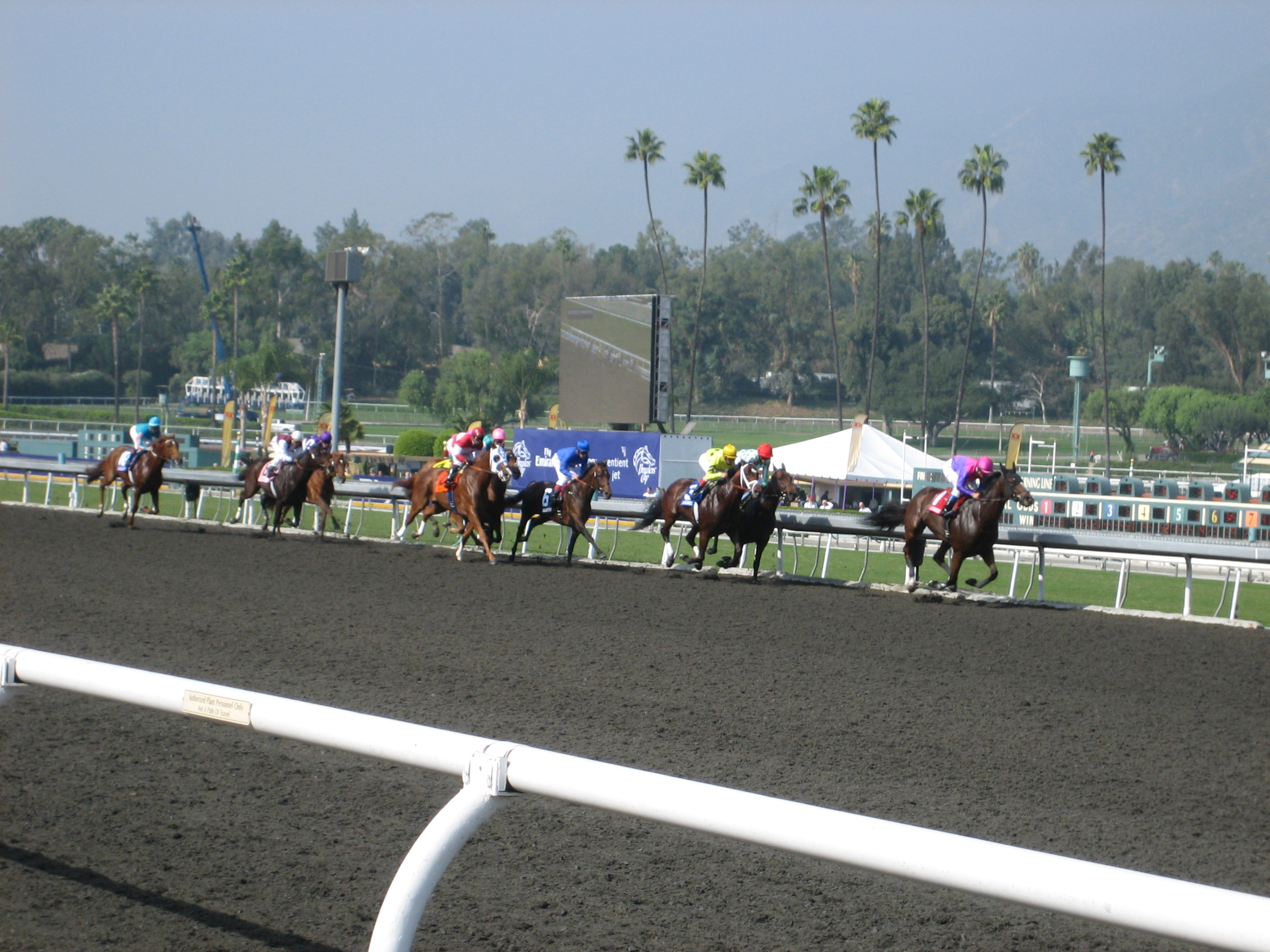 Photos from the Breeder's Cup at Santa Anita Race Track, 06 November 2009 Photos from the Breeder's Cup at Santa Anita Race Track, 06 November 2009 Breeders' Cup 2009